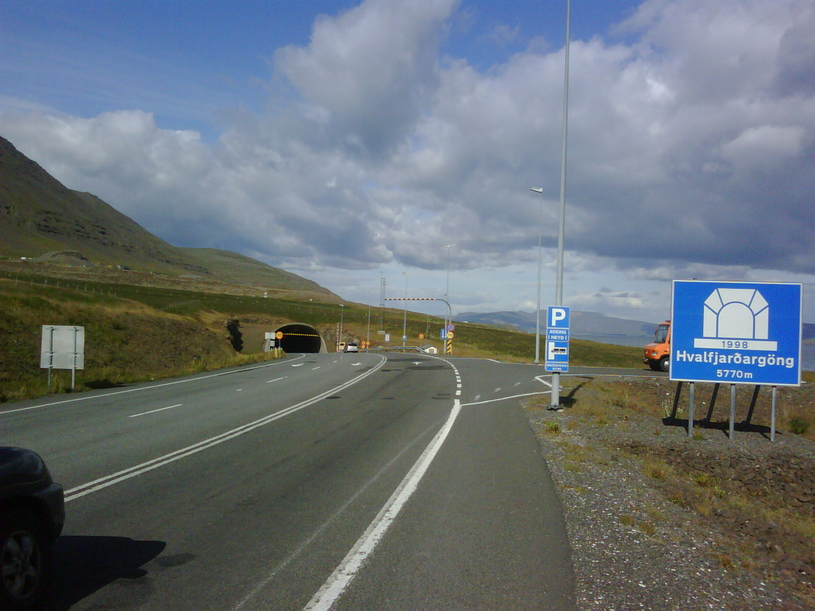 Hringvegur